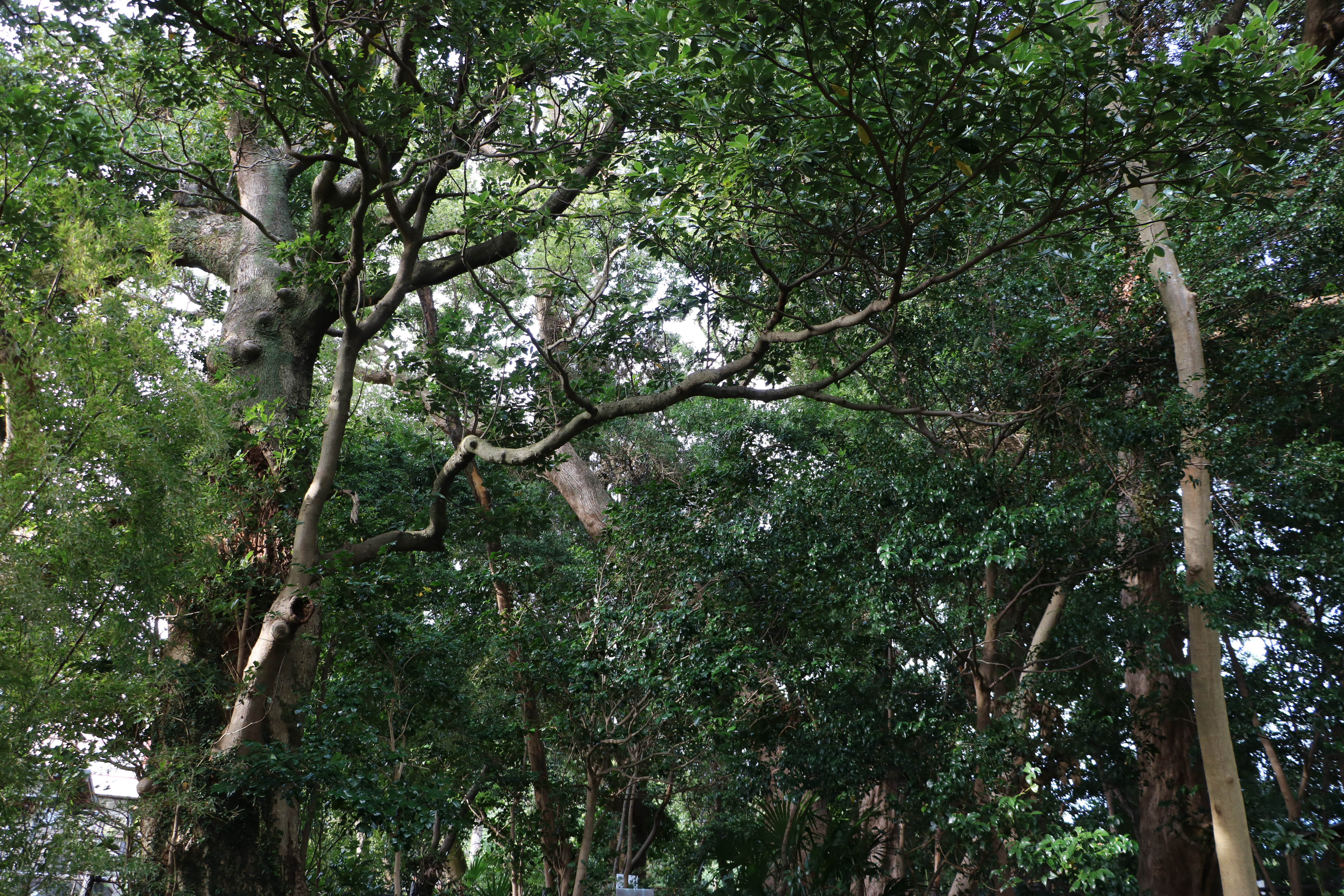 Yamagami no Juso Natural forest Japanese natural monument